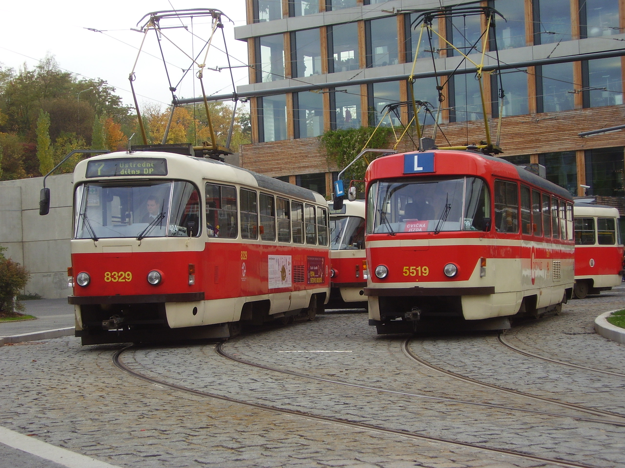 Tram track Radlice - Tatra T3 as practice drive and normal link on Radlická end station